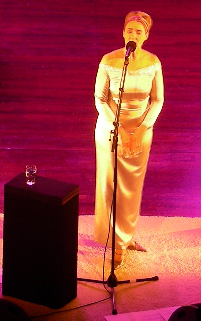 Lisa Gerrard, Rotterdam